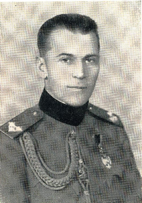 Vladimir Vauhnik, slovene general and spy